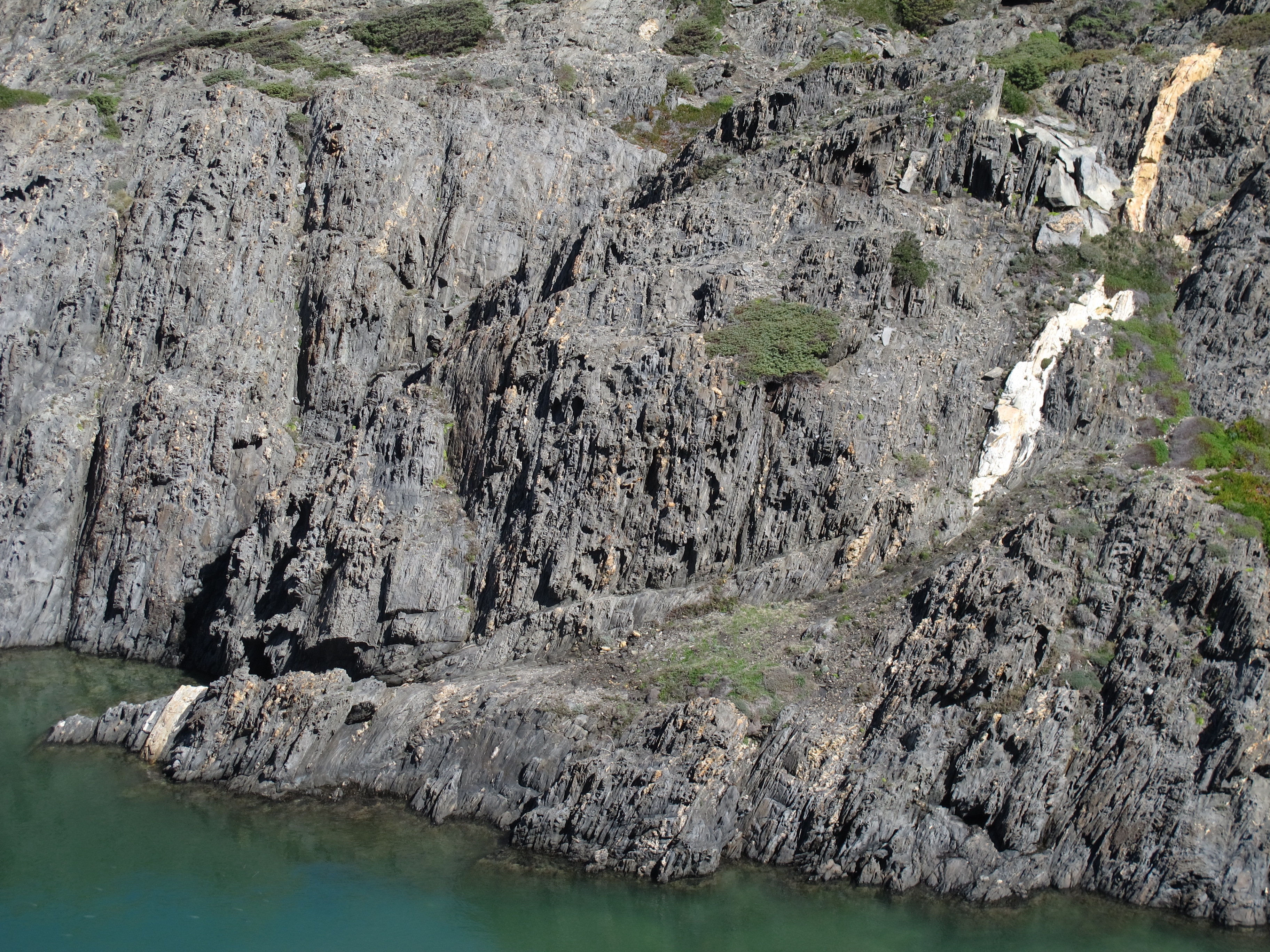 Prominent pegmatite dyke showing 23 m dextral offset across steeply-dipping shear zone. Cala Prona, Cap de Creus area, Catalunya.